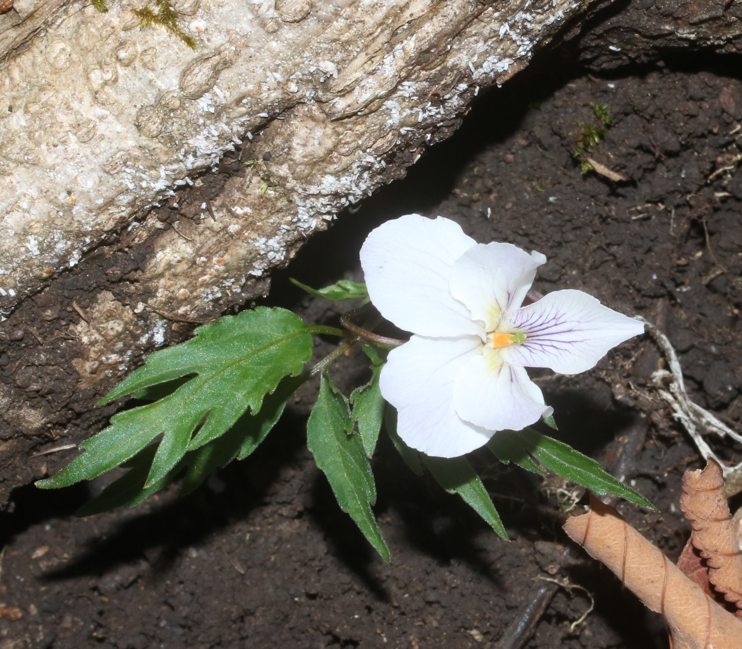 Viola eizanensis f. candida in Mount Funabuse, Yamagata, Gifu Prefecture, Japan.